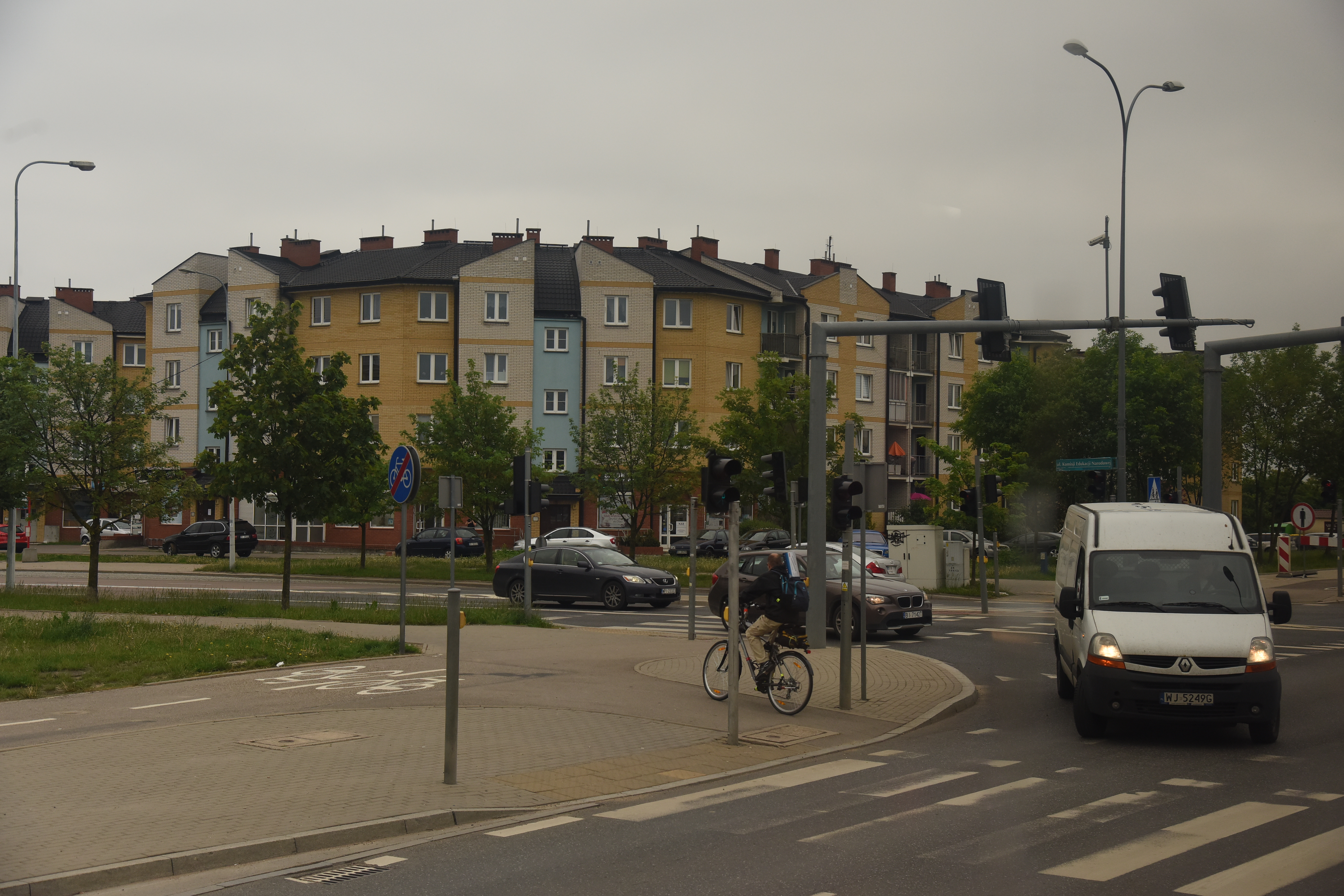 Intersection of Narodowych Sił Zbrojnych and Komisji Edukacji Narodowej streets in Białystok, May 2019